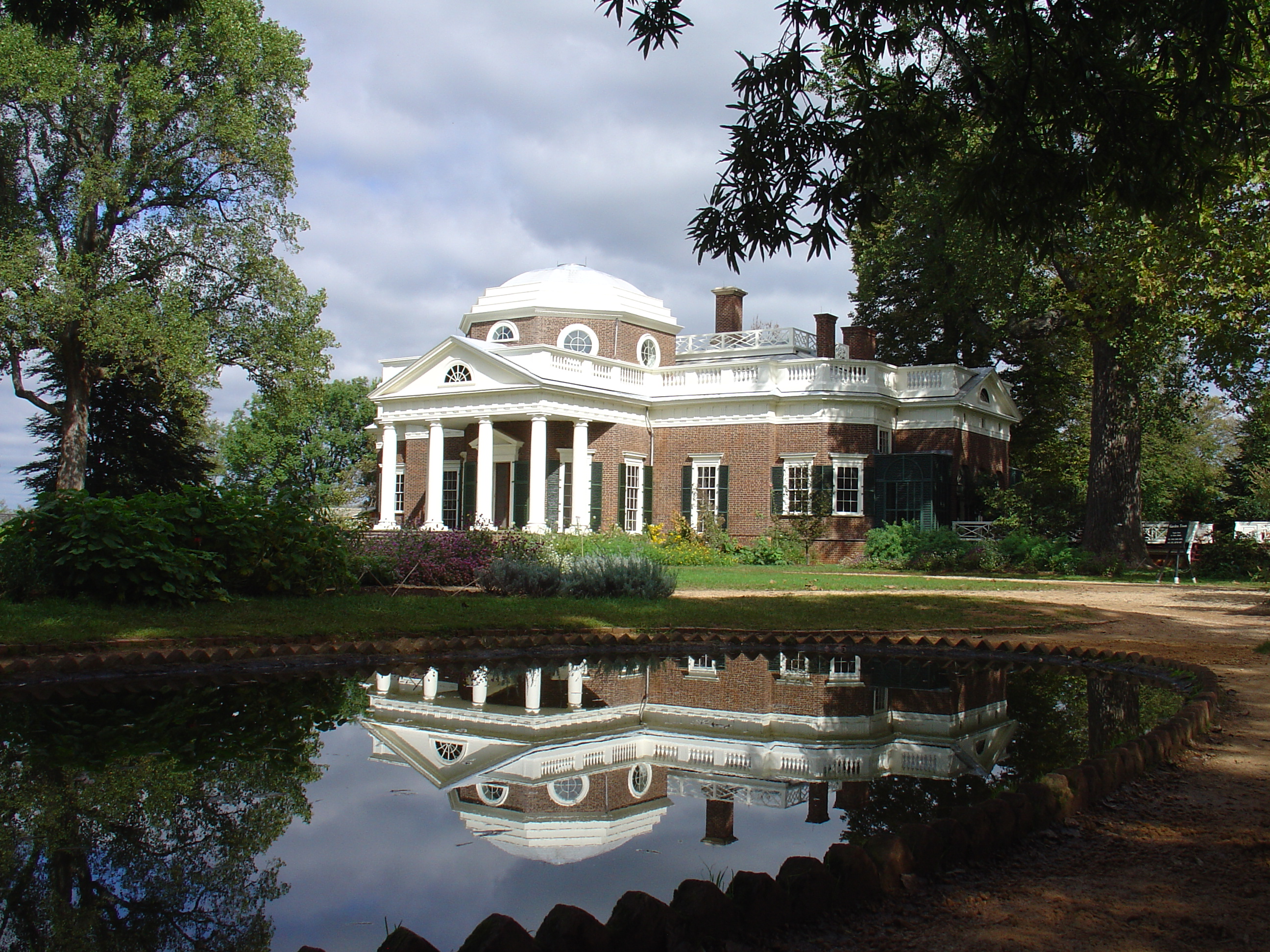 This photo was taken October 2005 at Monticello, the home of Thomas Jefferson, in Charlottesville, Virginia. The reflection is from the fish pond where Jefferson would temporarily keep fish before they were prepared for meals at the house. Photographer: Matt Kozlowski